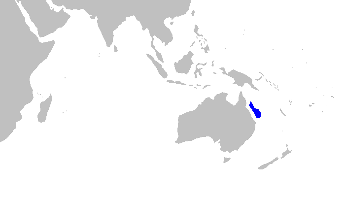 Distribution map for Pristiophorus sp B